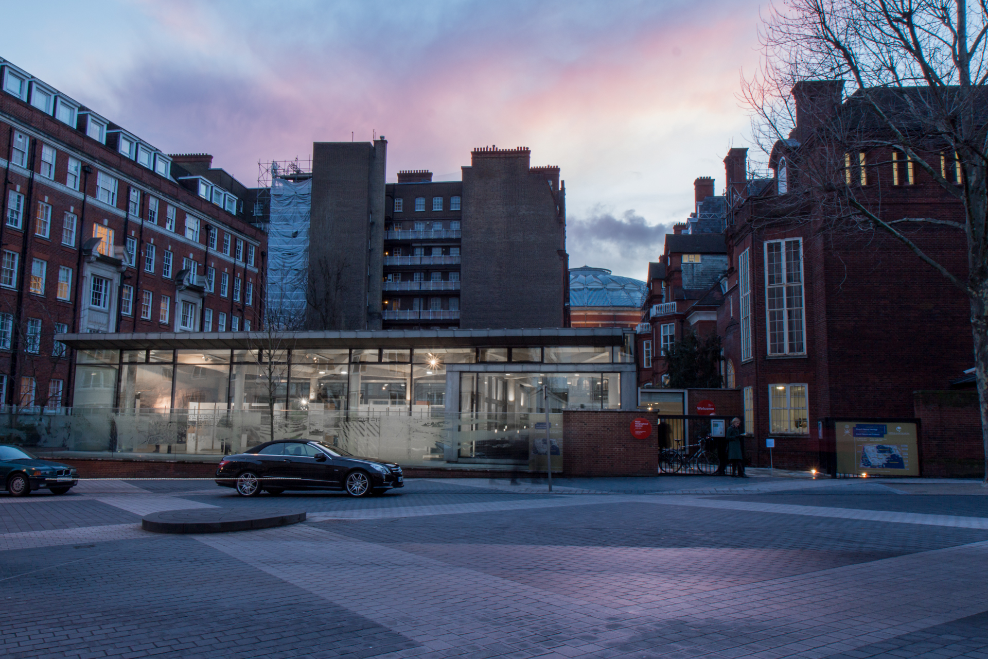 Royal Geographical Society building in London. 1 Kensington Gore, London, SW7 2AR